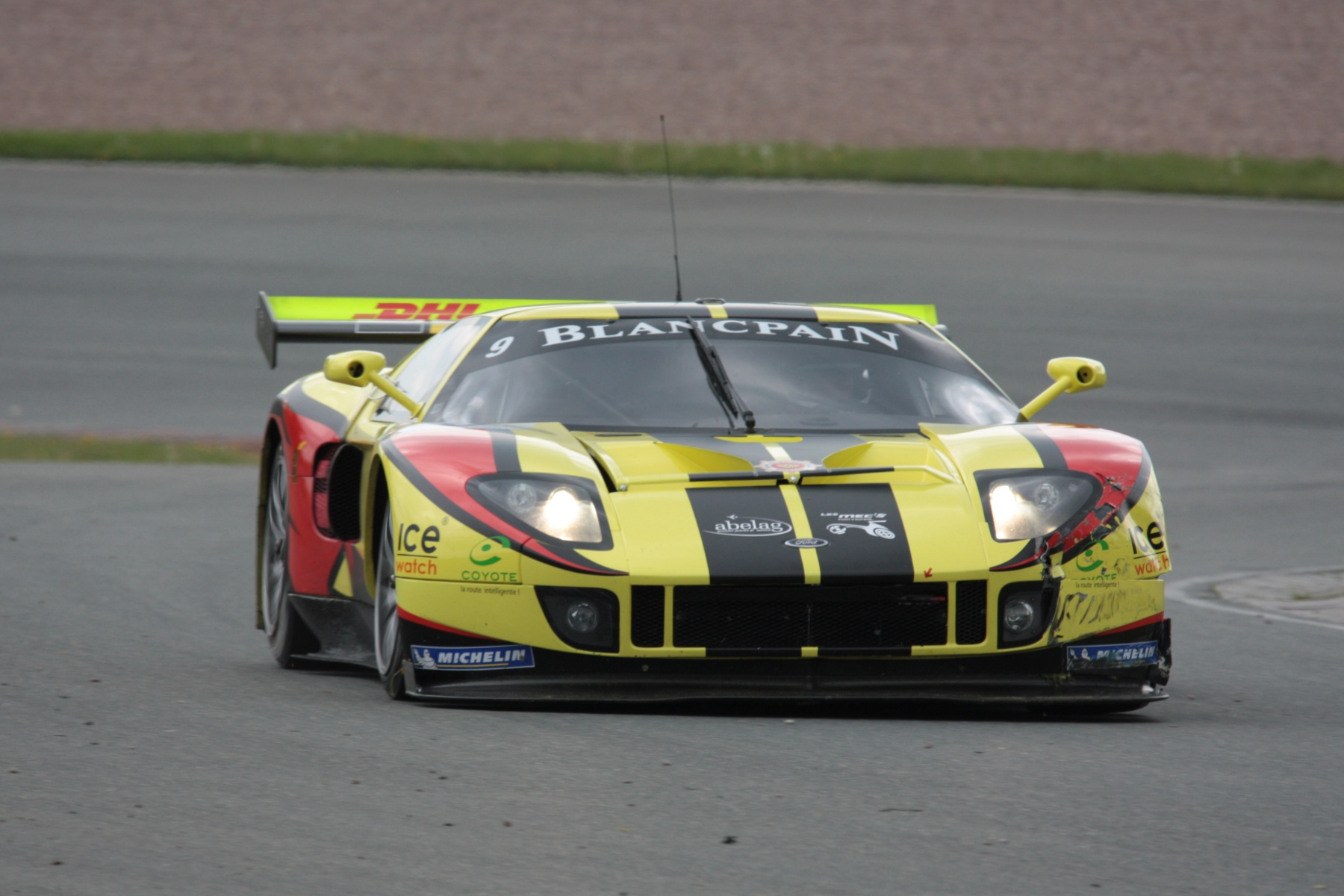 Vanina Ickx driving a Ford GT at the championship race 2011